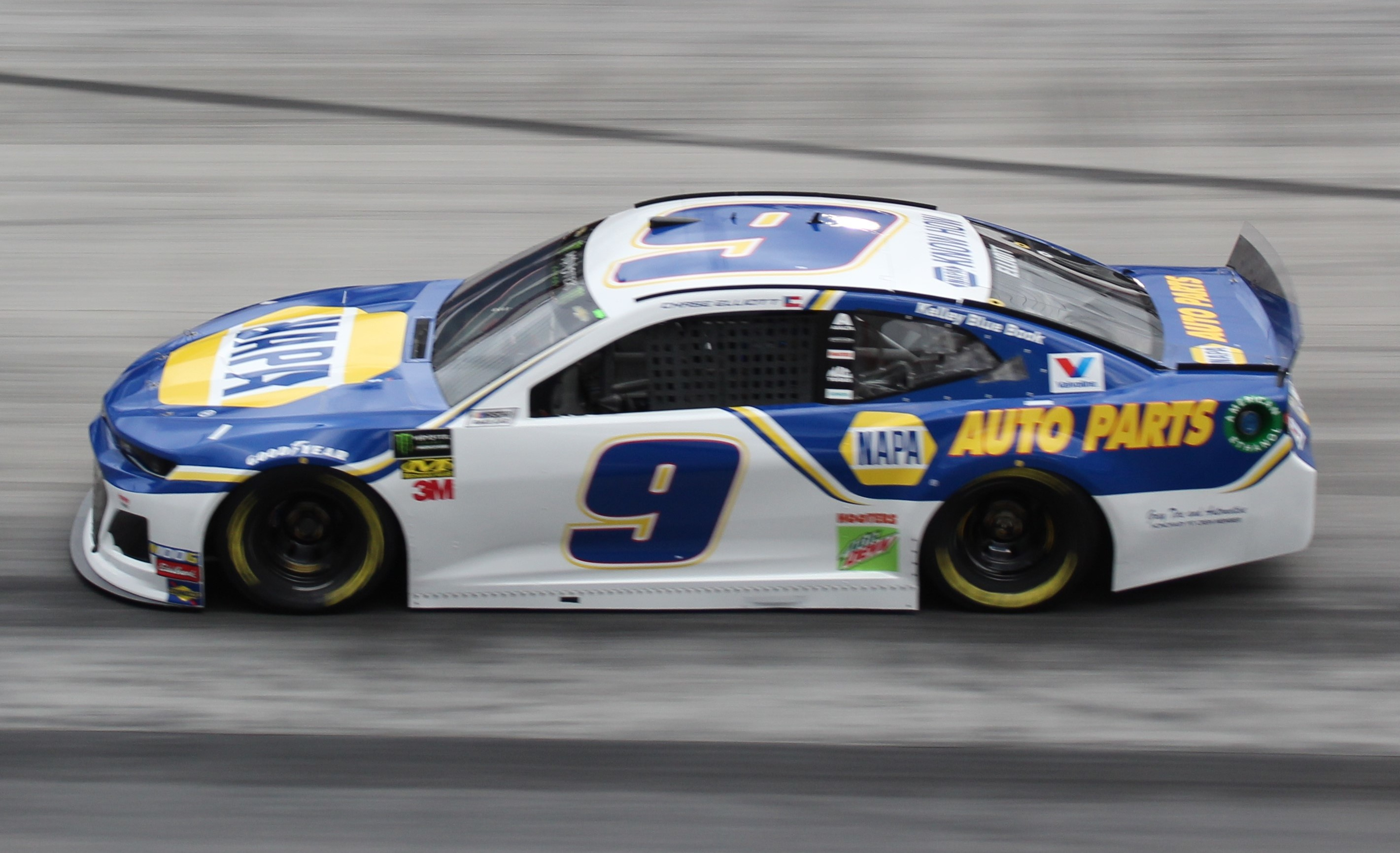 2019 Food City 500